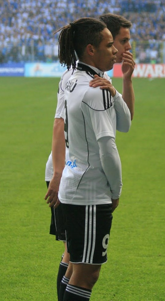 Portugeese football player Manú as playing for Legia Warsaw